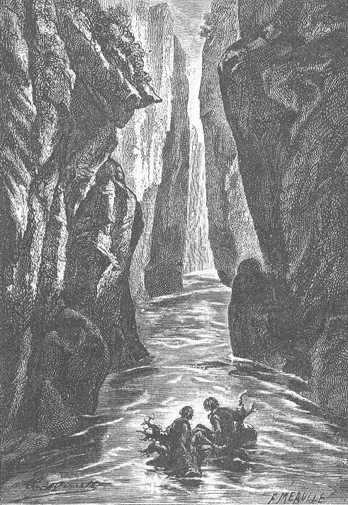 An illustration from Jules Verne's novel "Mathias Sandorf" (1885) drawn by Léon Benett.